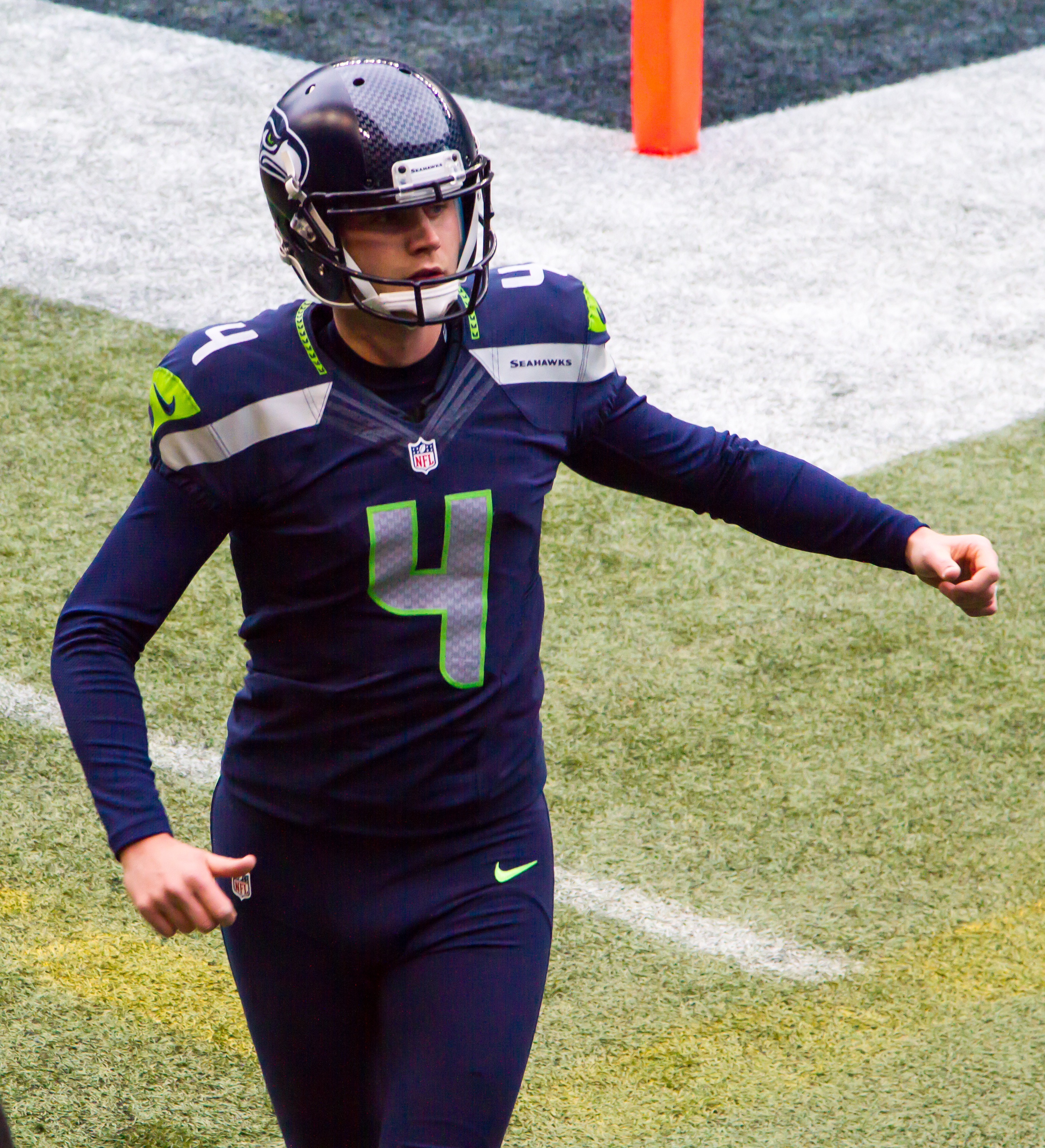 Steven Hauschka, Seahawks vs Rams 12.29.13